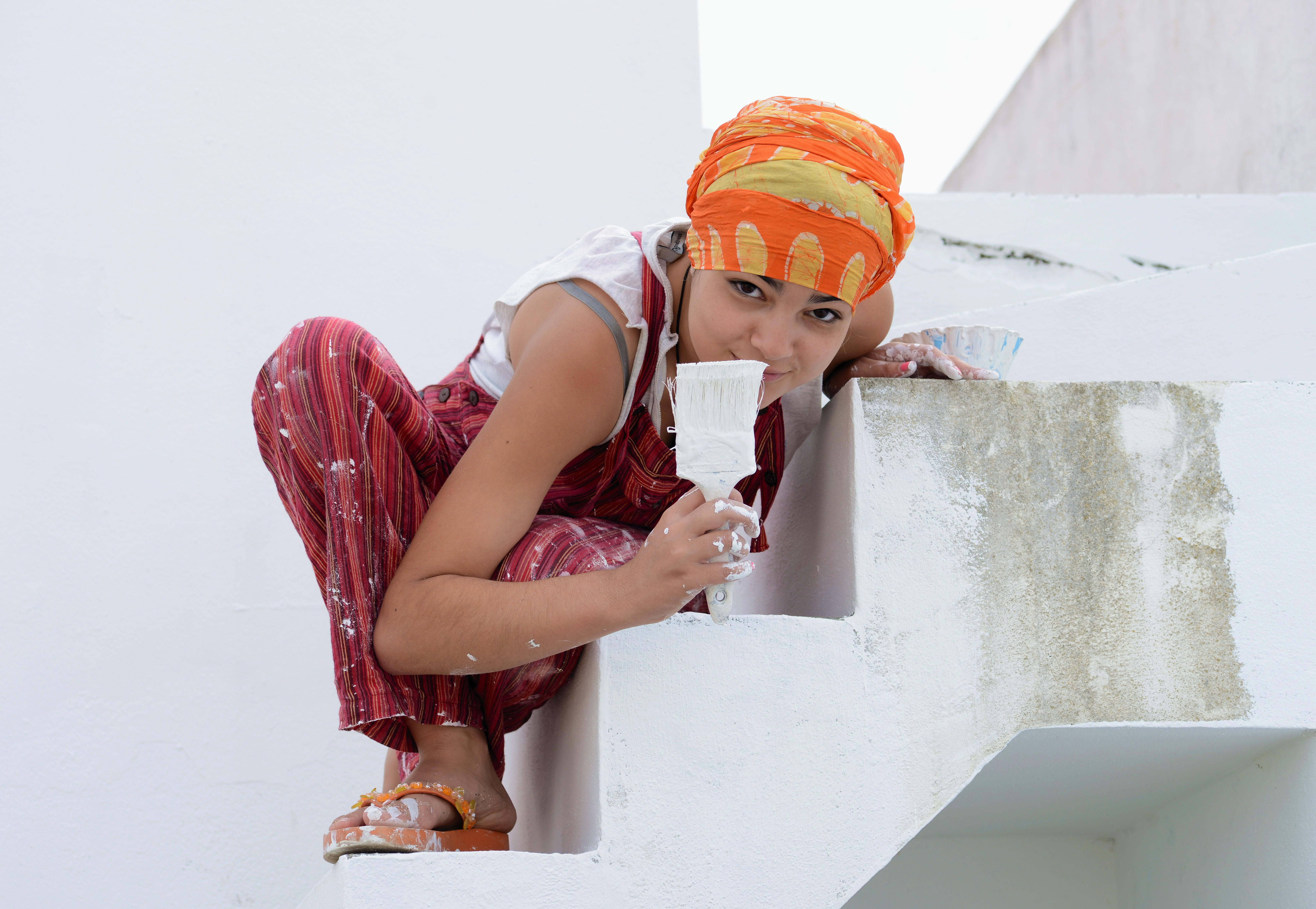 Girl painting a white staircase